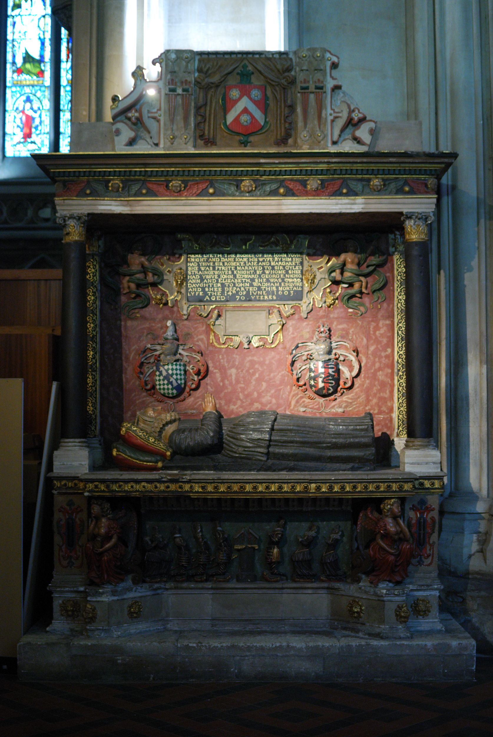 Monument in Bristol Cathedral with recumbent effigy of Joan Wadham (1533-1603), a daughter of John Wadham (died 1578) of Merryfield, Ilton, Somerset and Edge, Branscombe, Devon, and a sister and co-heiress of Nicholas Wadham (1531–1609), co-founder with his wife Dorothy Wadham of Wadham College, Oxford. Joan later remarried Sir John Young. Inscription:[1] "Here lyes the bodies of Sir John Young knight and Dame Joan his wyfe. By him she yssued Robert, Jane and Margaret. She was fyreste marryed to Sir Gyles Straingwayes knight by whome shee had yssue John, Edward, George, Nicholas, Ann and Elizabeth. She was daughter to John Wadham esquire and she departed this mortall lyfe the 14th June 1603 aged 70 yeeres".